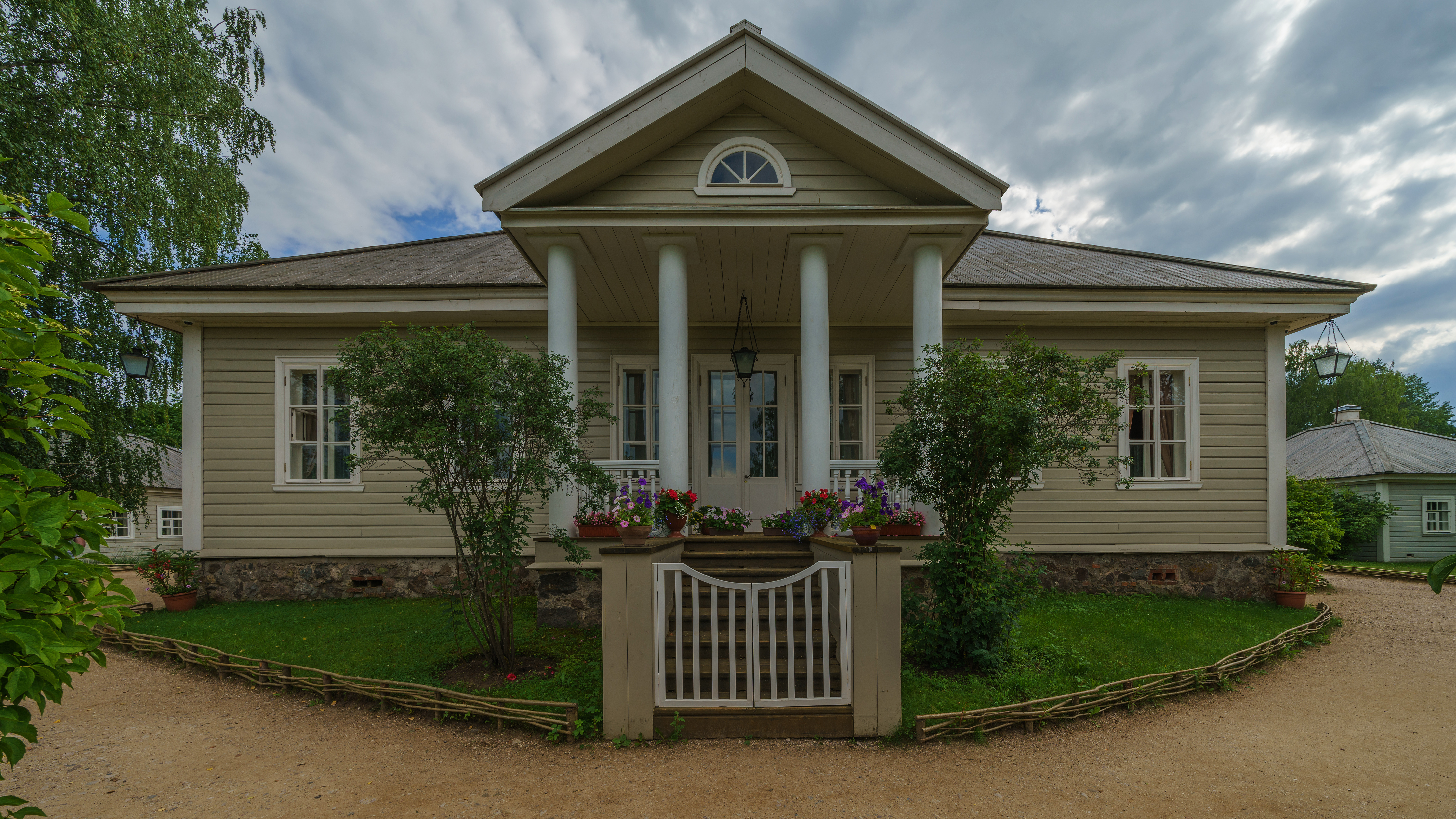 Main house in Mikhailovskoe Estate in Pushkinskiye Gory, Pskov Oblast, Russia.